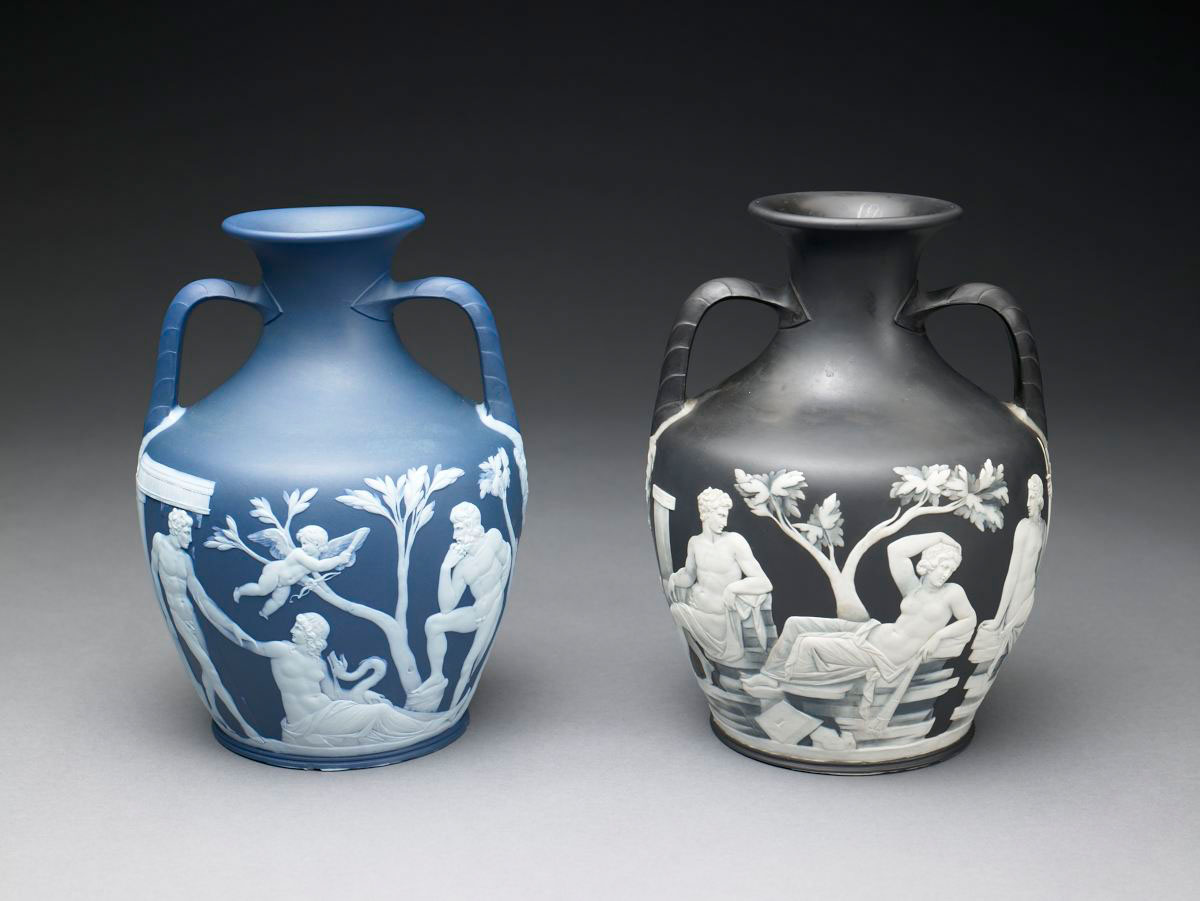 Two jasperware copies, one dark slate-blue and the other black, of the famous Portland Vase.